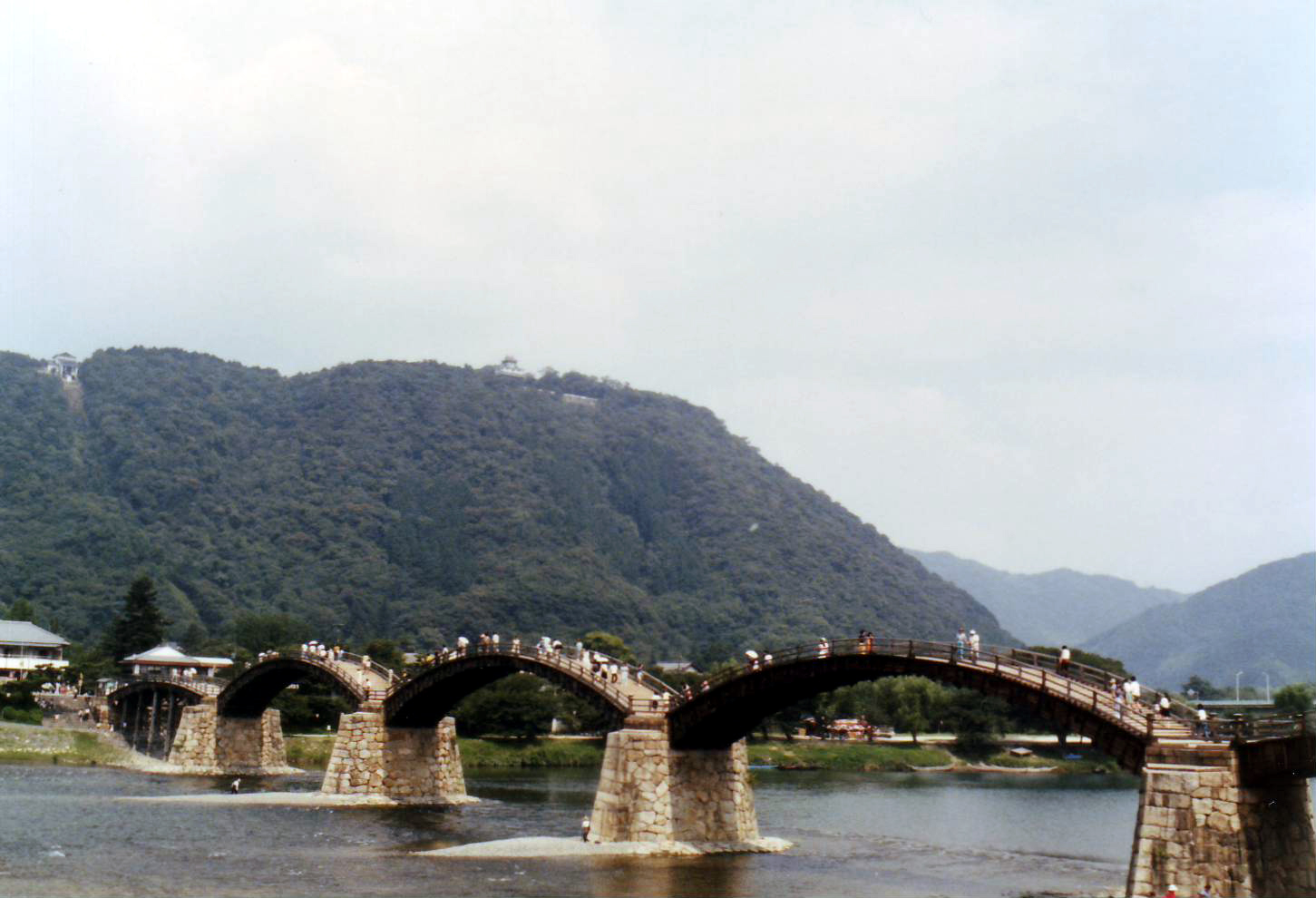 photo of Kintai-bridge(Kintai-kyo) and Iwakuni castle